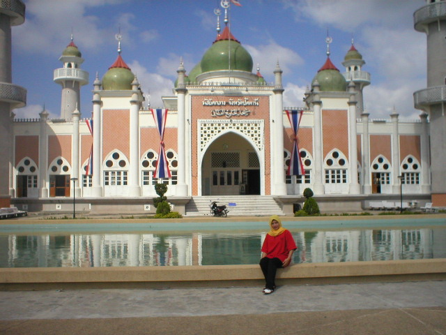 Pattani Province, Thailand